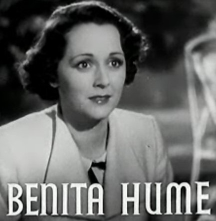 Cropped screenshot of Benita Hume from the trailer for the film The Last of Mrs. Cheyney